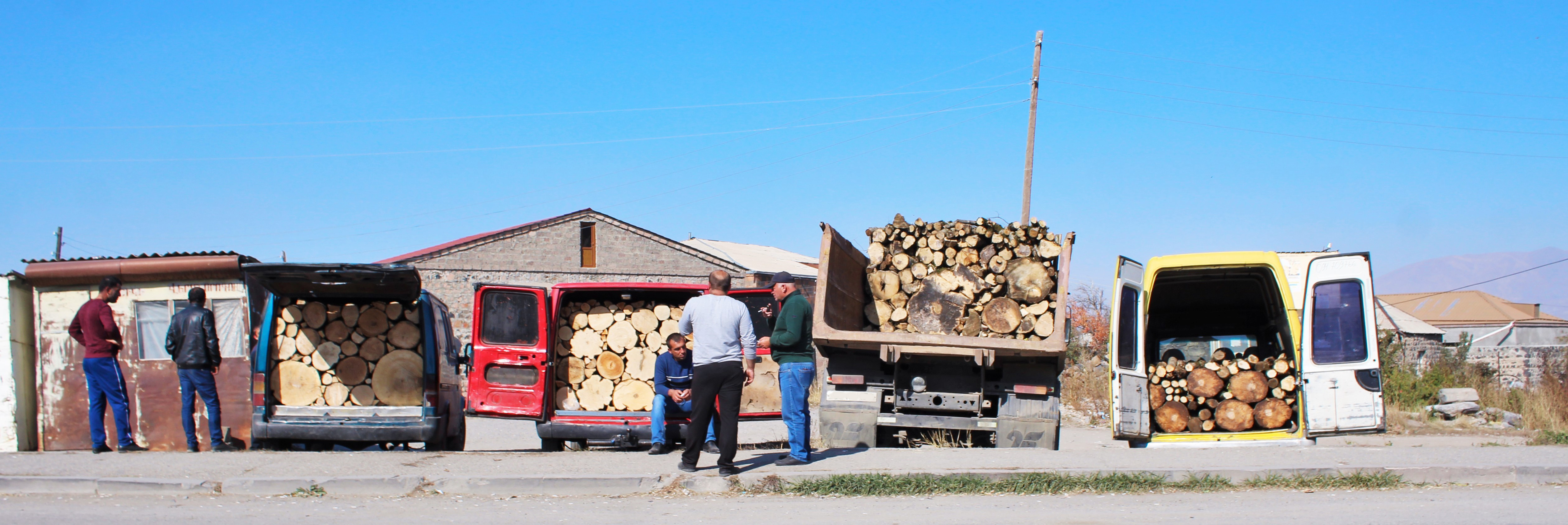 Firewood sale in Gegharkunik province of Armenia